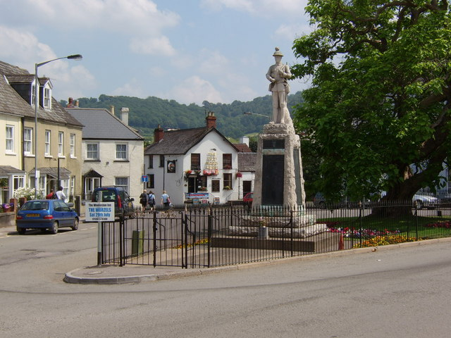 St James' Square, Monmouth The square is home to the town's war memorial and, behind it, a catalpa tree: an import from North America which was planted here in around 1900.